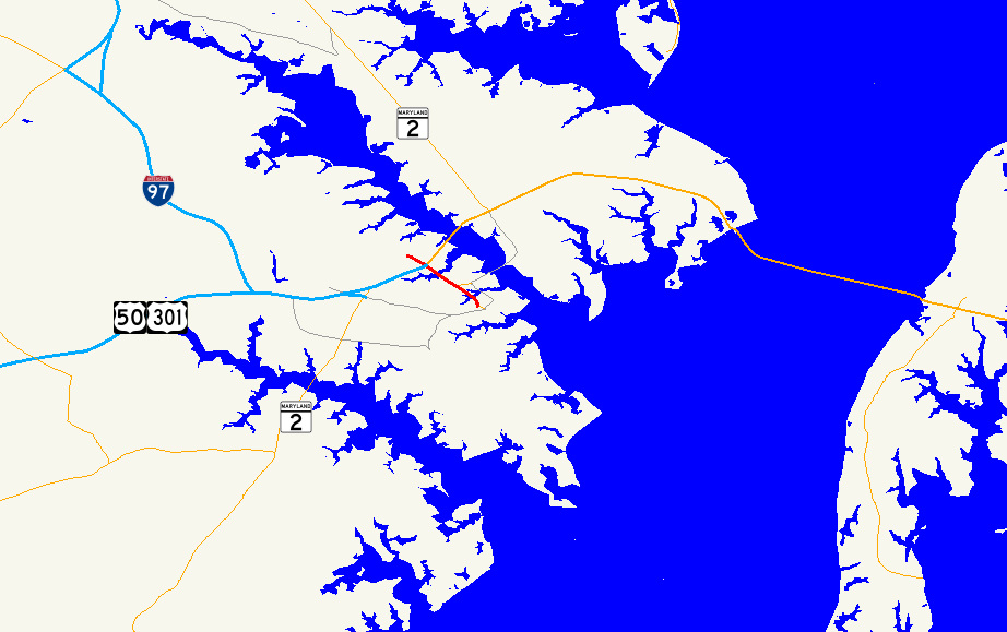 Map of Maryland Route 70